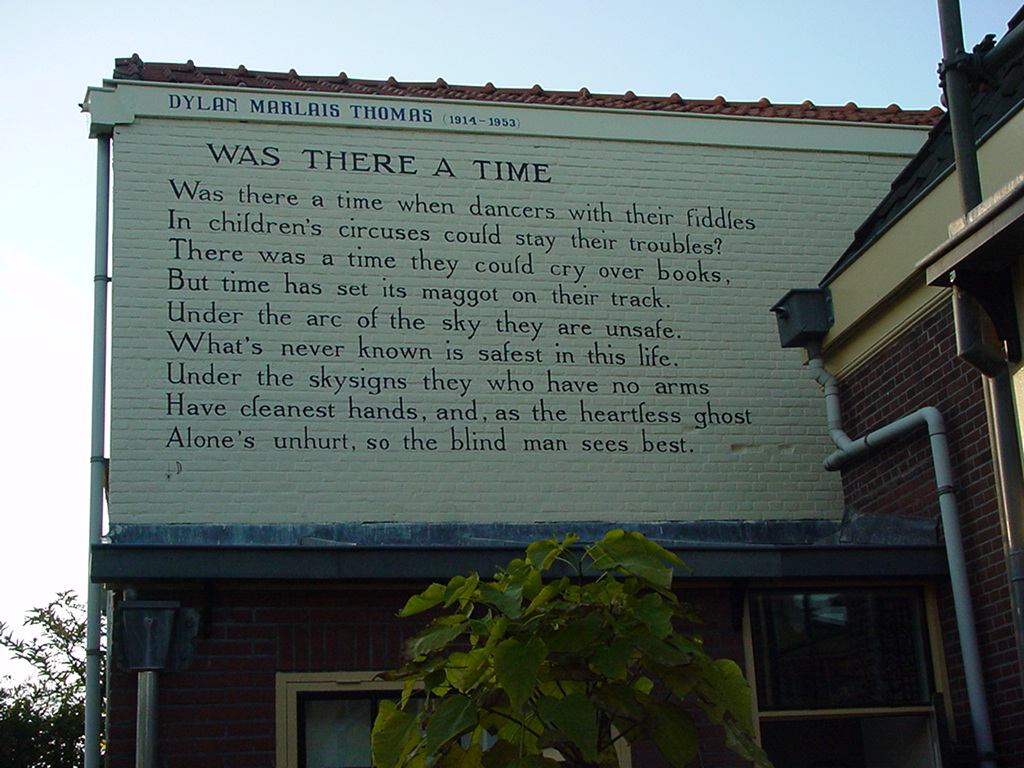 Wallpoem in de city of Leiden in the Netherlands.